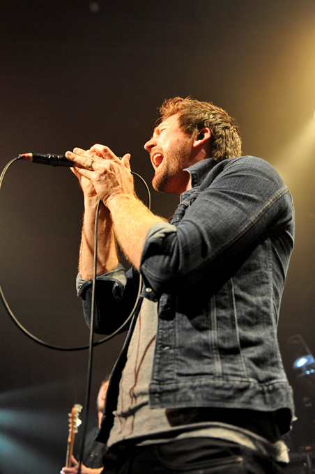 Anberlin @ Club Capitol (26/8/2011)